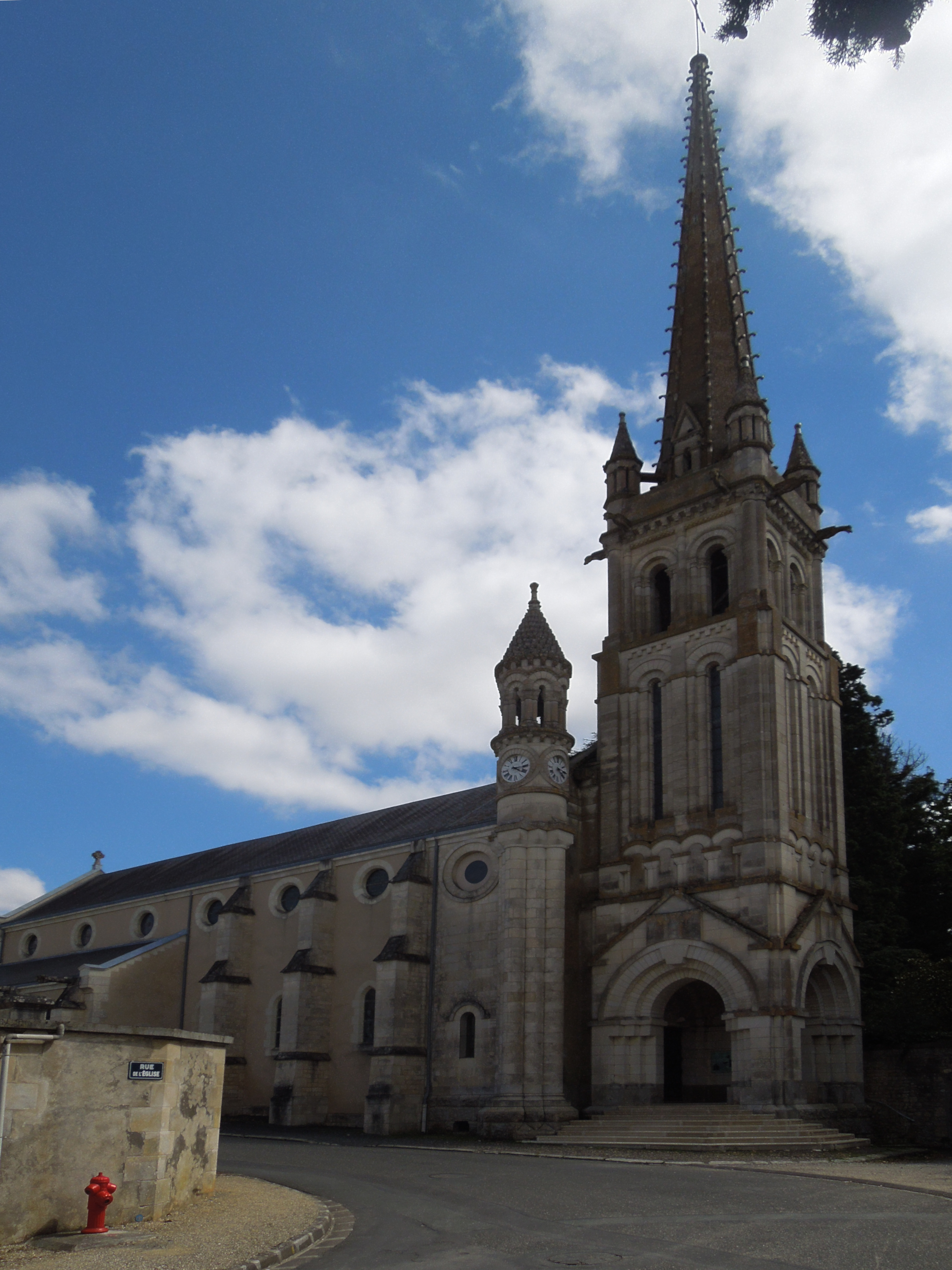 Church in Saint-Julien-l'Ars (July 2012)